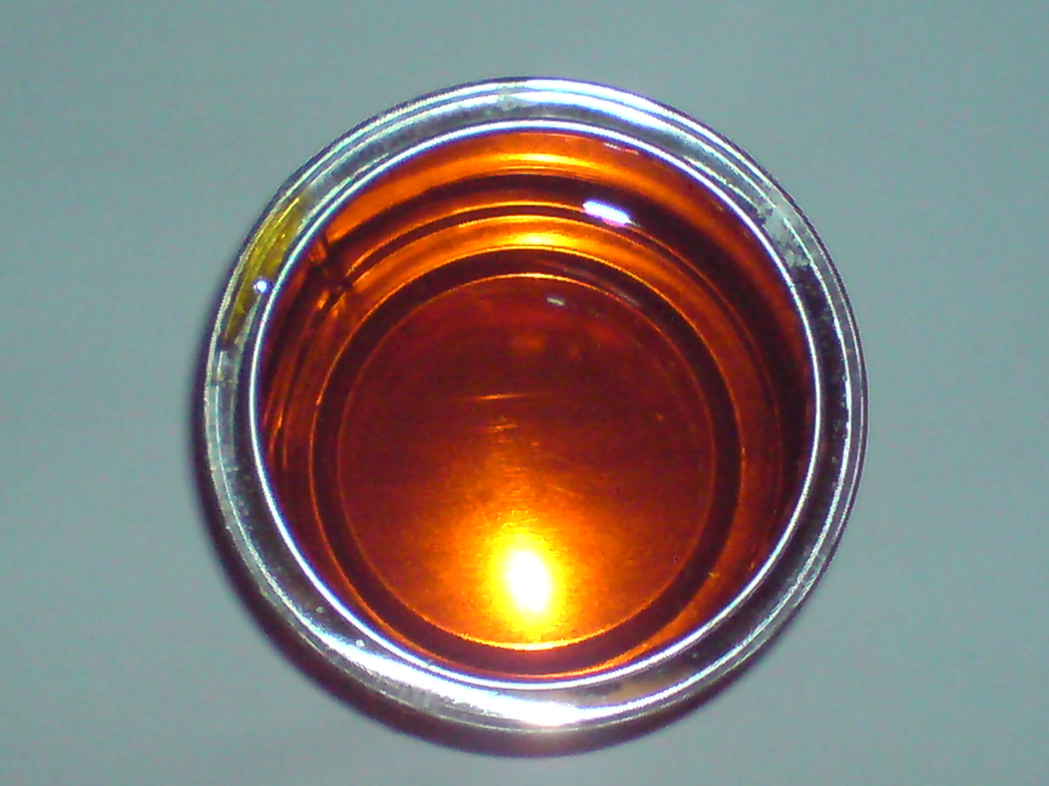 A photograph of the inside of a tin of golden syrup